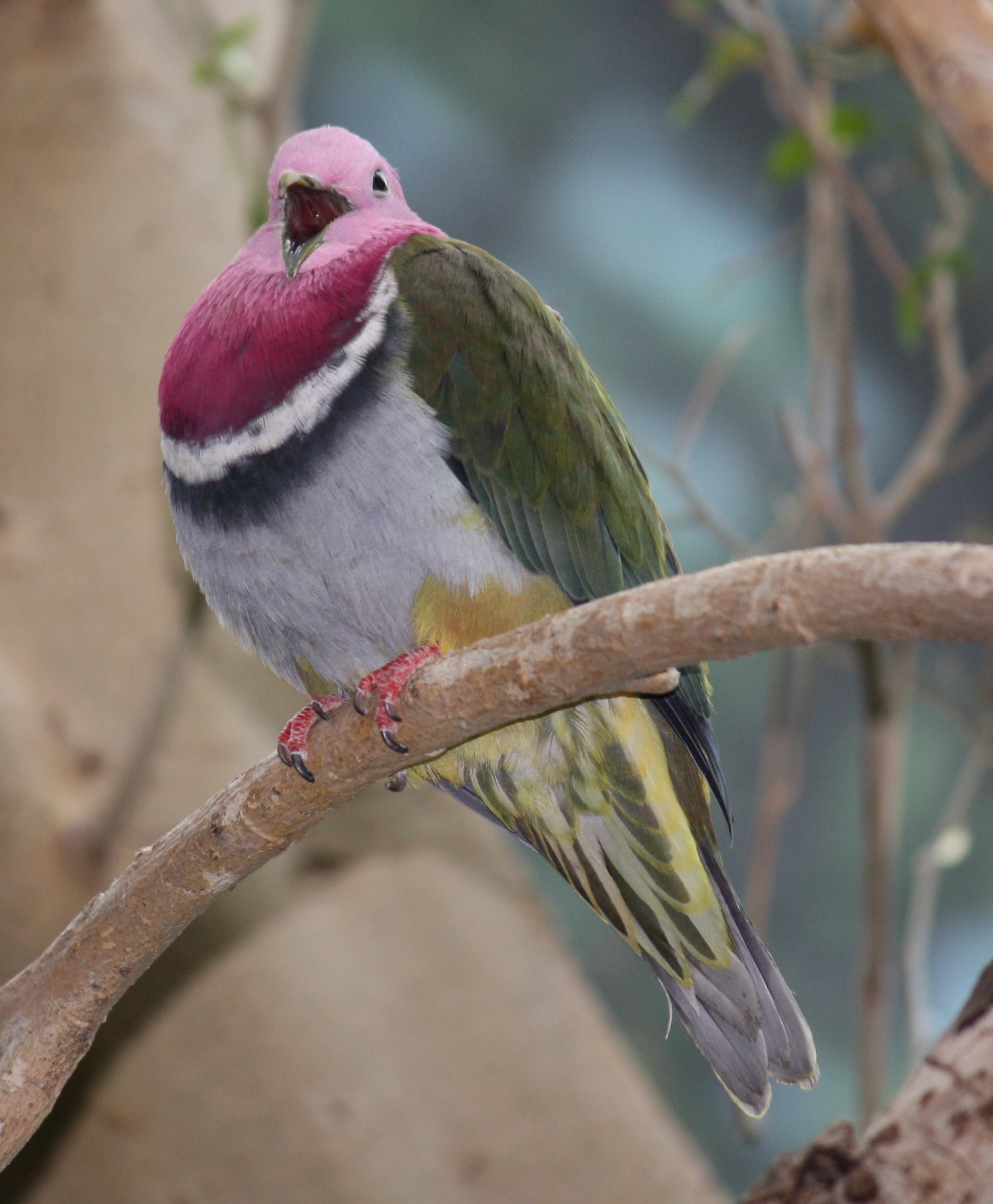 Pink-headed Fruit Dove Ptilinopus porphyreus at Louisville Zoo